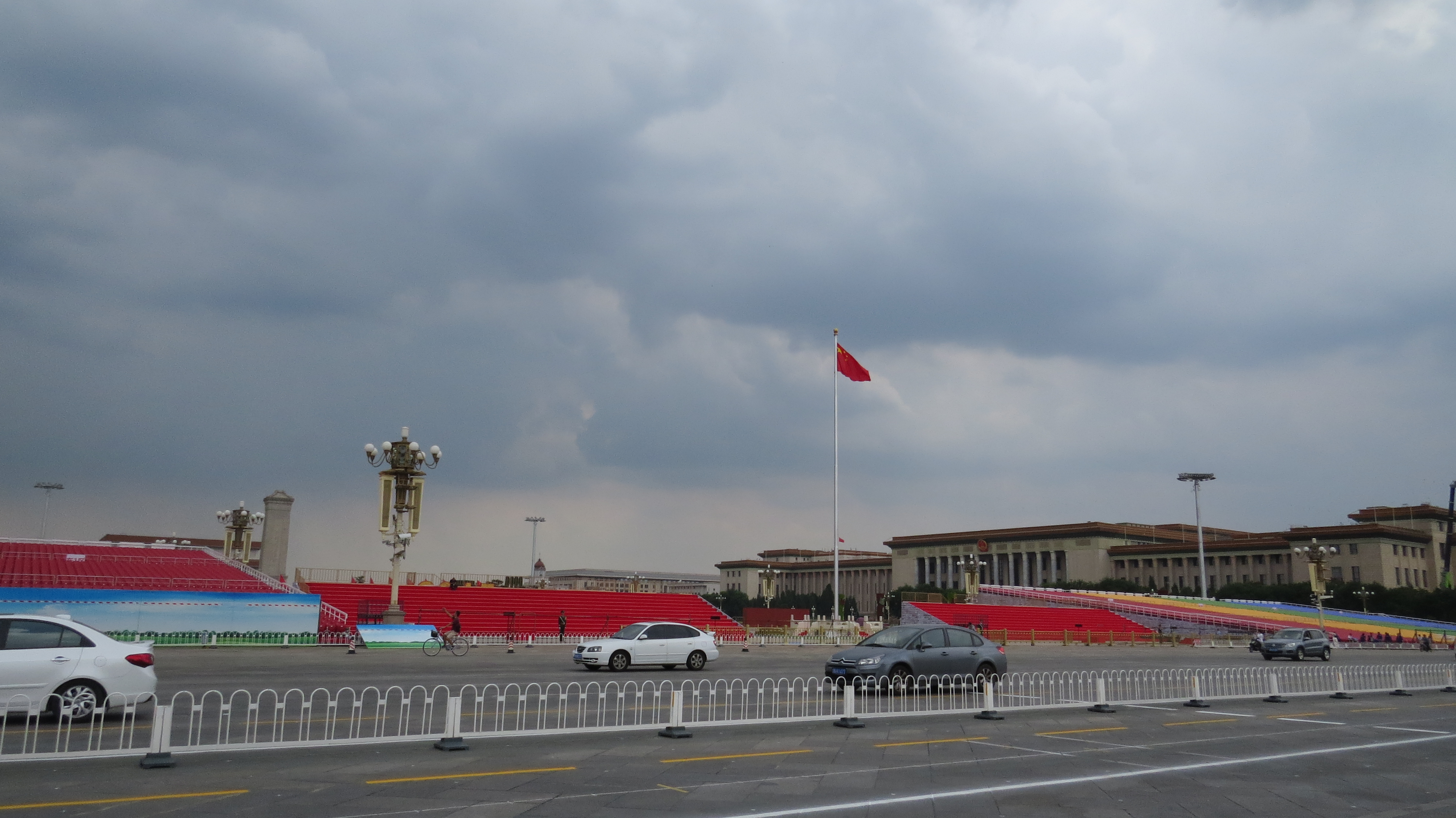 Exclusively for the military parade commemorating the 70th anniversary of WWII victory on 3 September 2015.